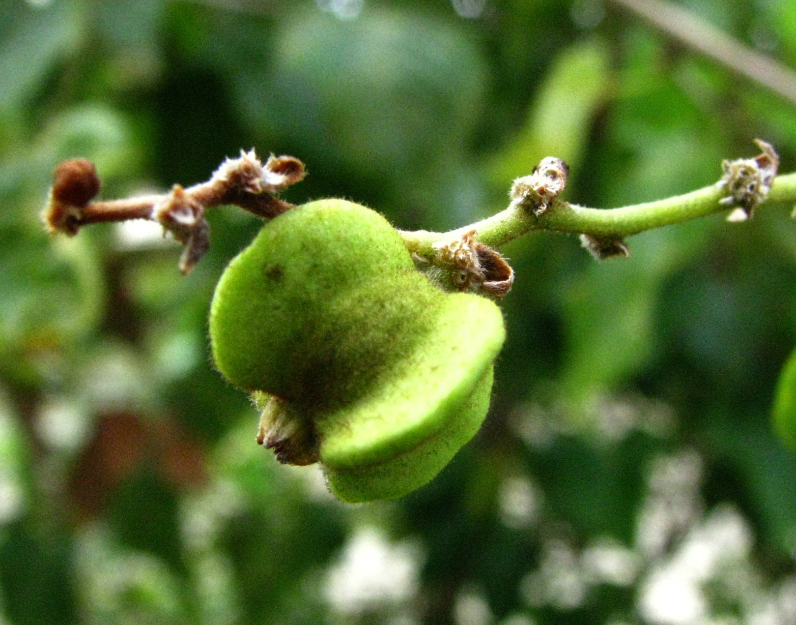 Oʻahu chewstick Rhamnaceae Endemic to the Hawaiian Islands Endangered Cultivated (Oʻahu) Green fruit.